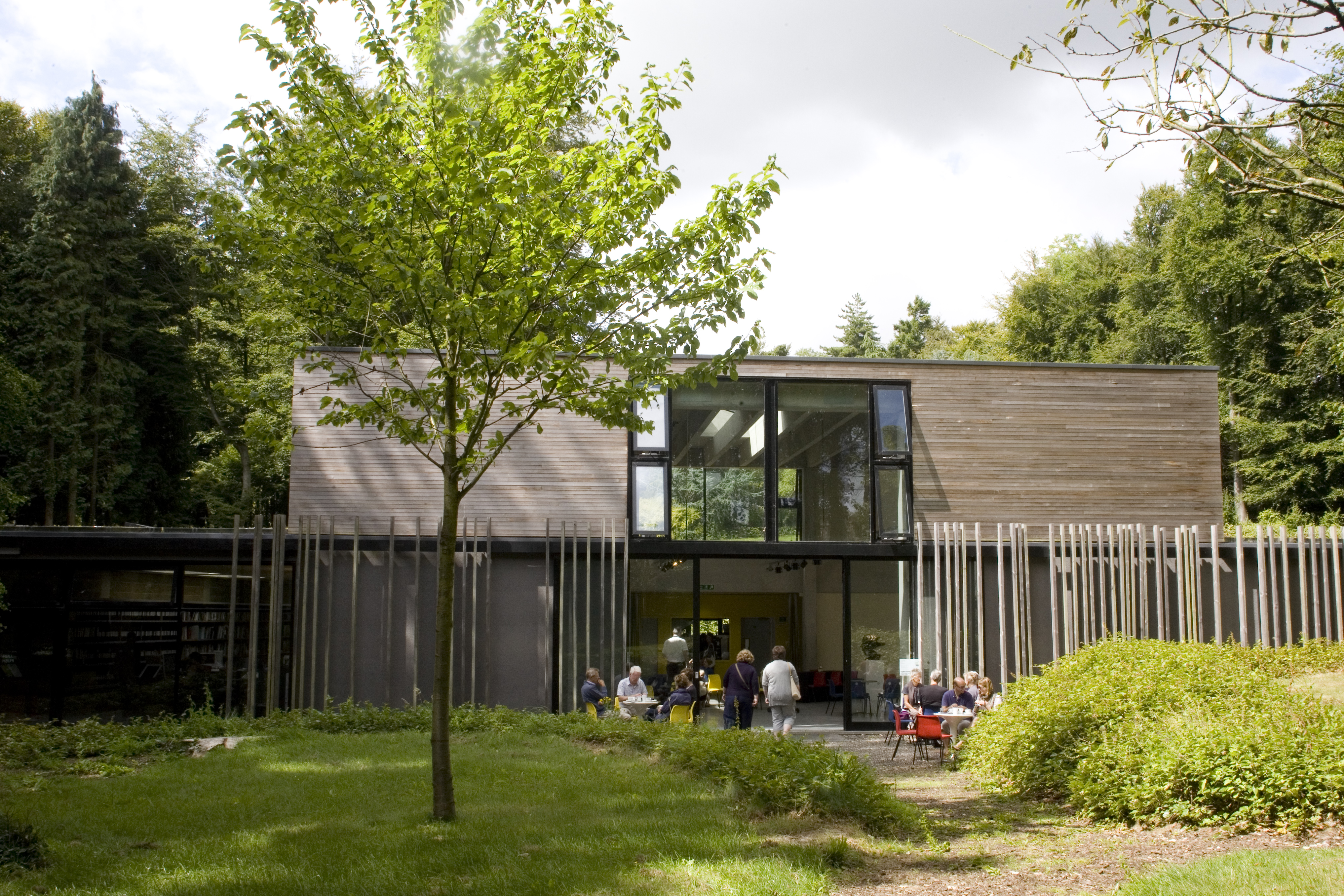 The Cass Sculpture Foundation Foundation Centre building in Goodwood, West Sussex.